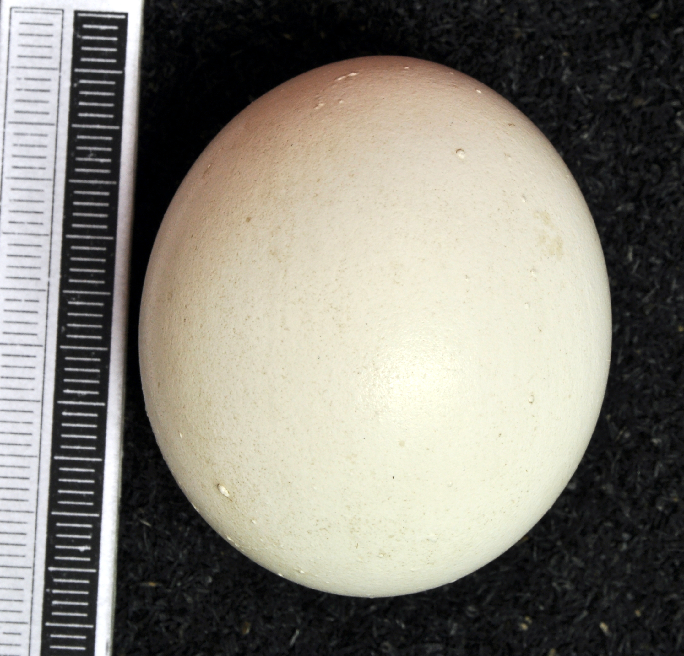 Ural owl Strix uralensis , egg, Coll. Museum Wiesbaden